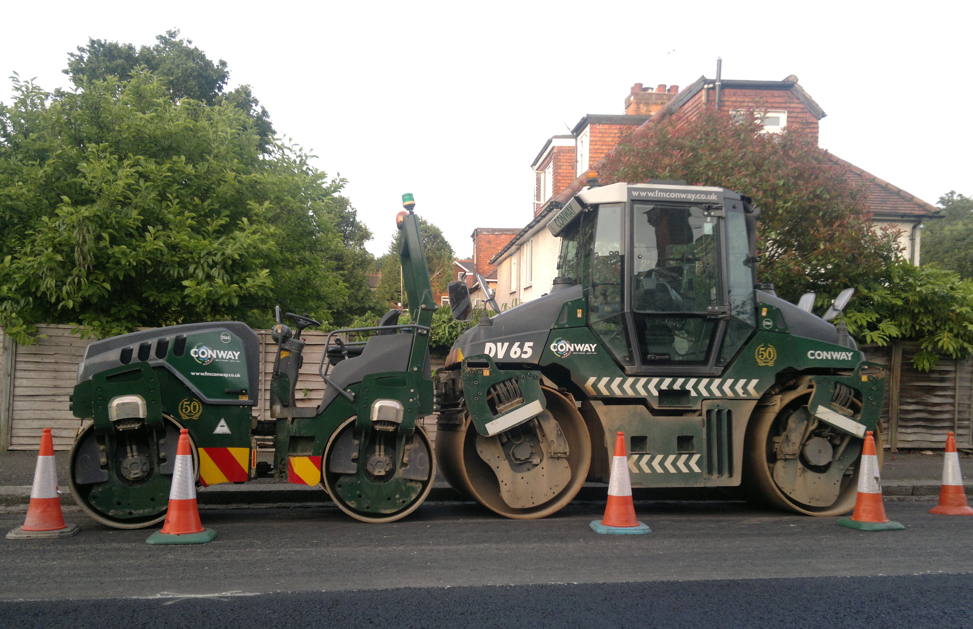 Conway road mending machine